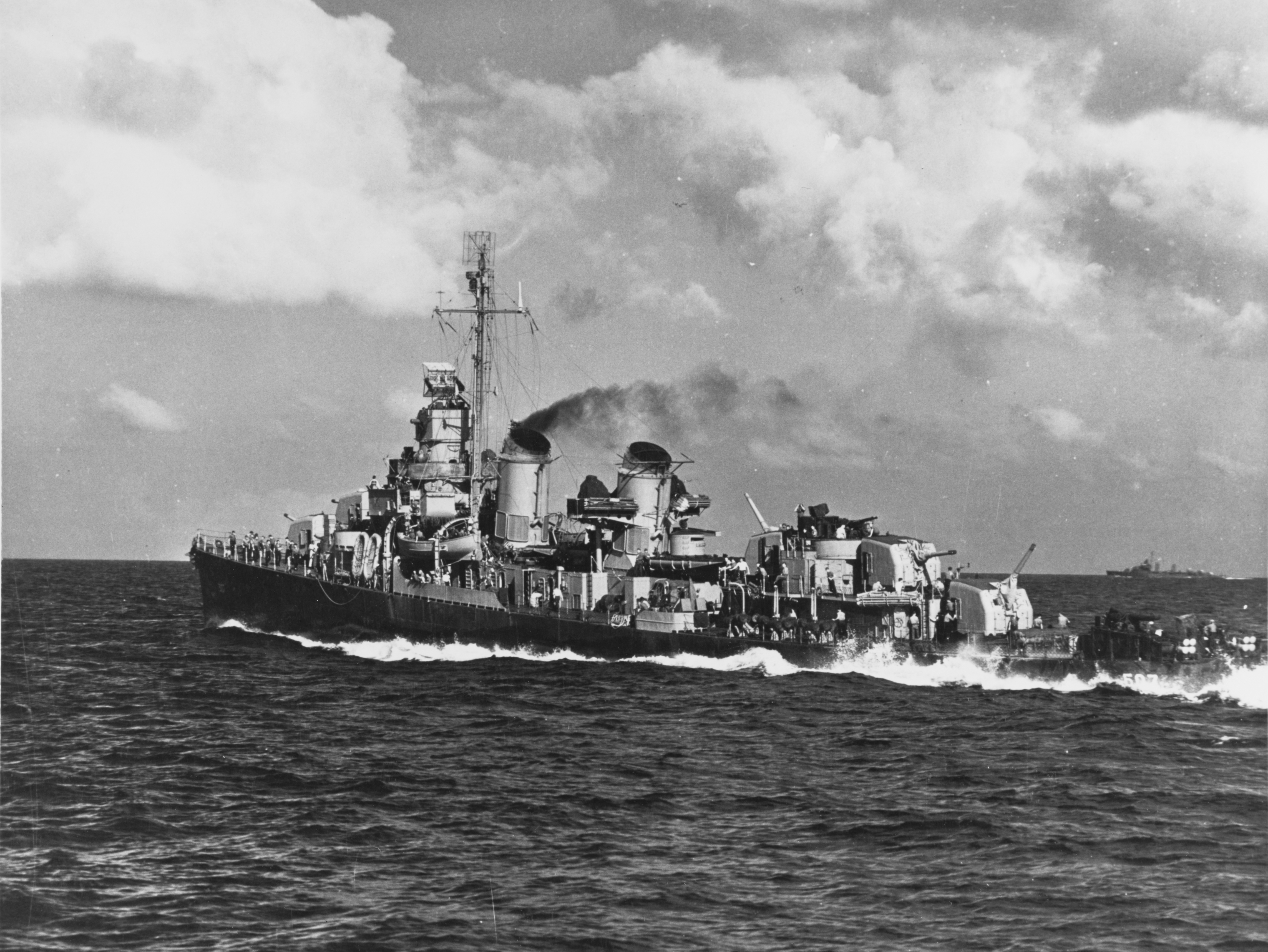 The U.S. Navy destroyer USS Conway (DD-507) underway in the South Pacific, while escorting a convoy, in August 1943. The photo may have been taken during the Vella Lavella invasion.